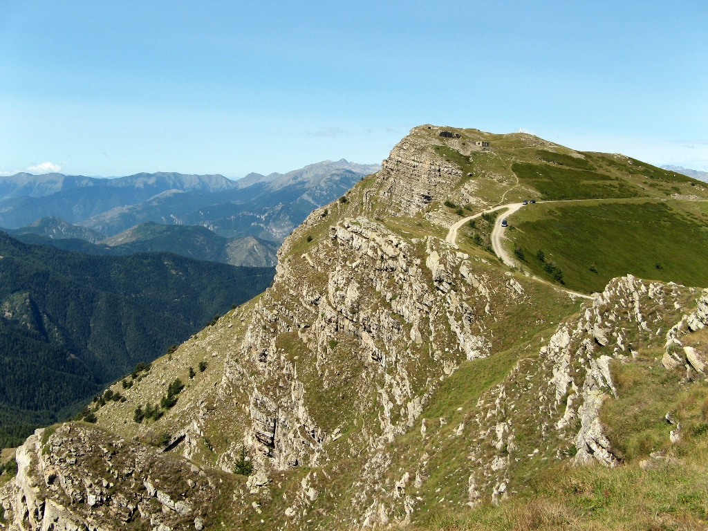 top of Mount Saccarello (2,200 m), the highest mountain in Liguria, close to the French border